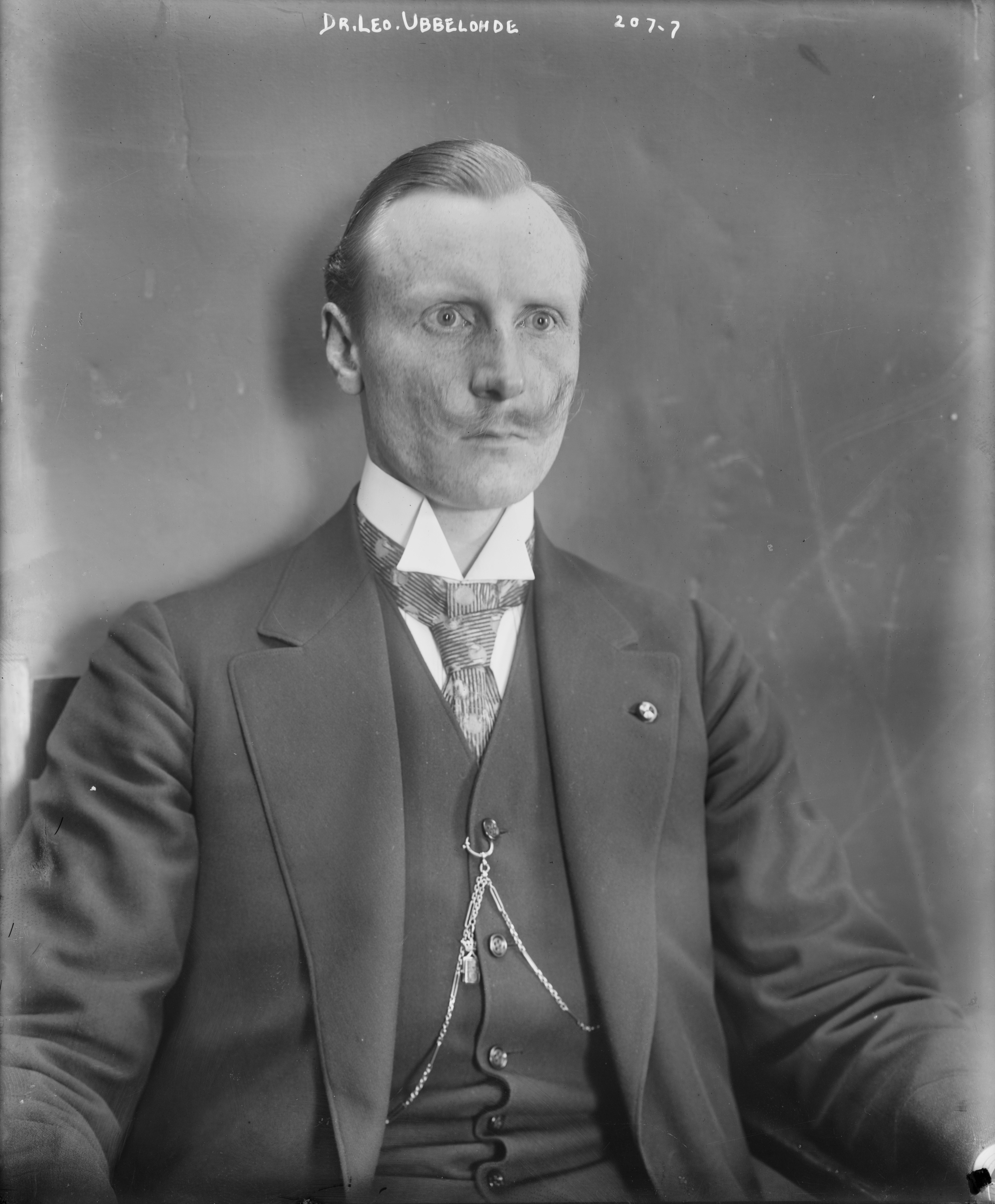 German chemist Dr. Leo Ubbelohde (* 4. Januar 1877 in Hannover; † 28. Februar 1964 in Düsseldorf), the inventor of the Ubbelohde viscometer.